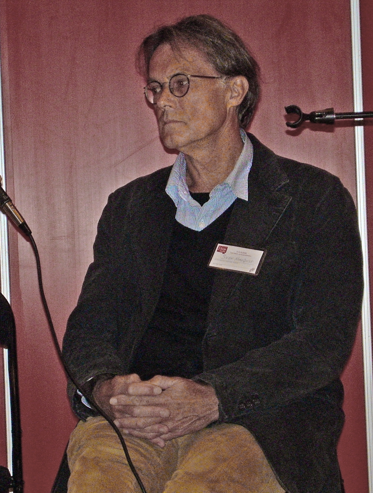 Swedish children's writer Sven Nordqvist at the Turku International Book Fair.